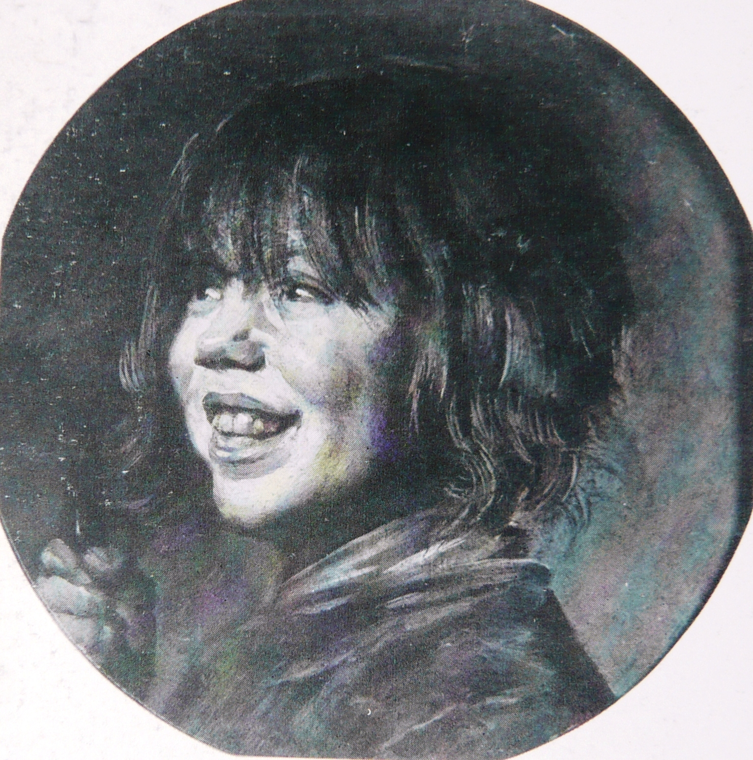 Holland, circa 1620-1625 Paintings Oil on wood Diameter: 11 in. (27.94 cm)